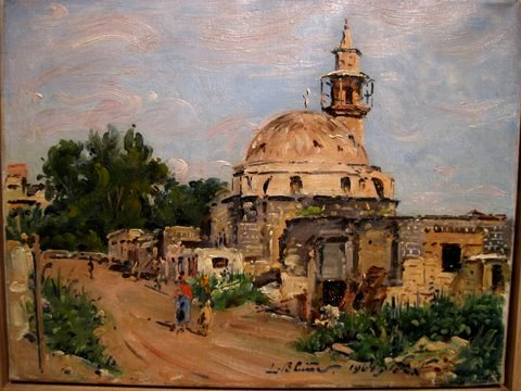 Ludwig Blum , an Israeli painter (1891- 1974) painted portraits such as High Commissioners of Palestine, Abdullah I of Jordan, Moshe Dayan.